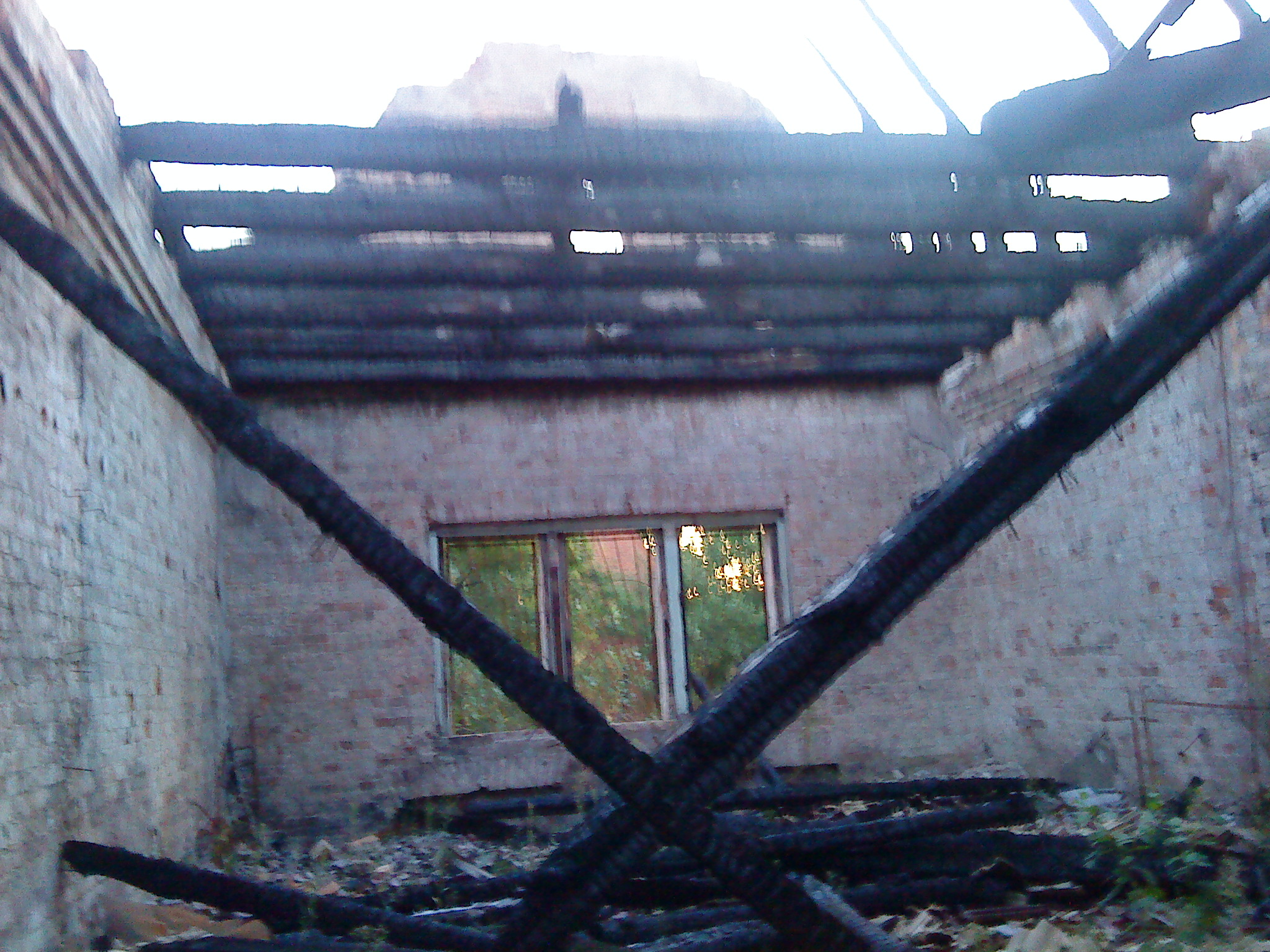 Landesirrenanstalt Domjüch